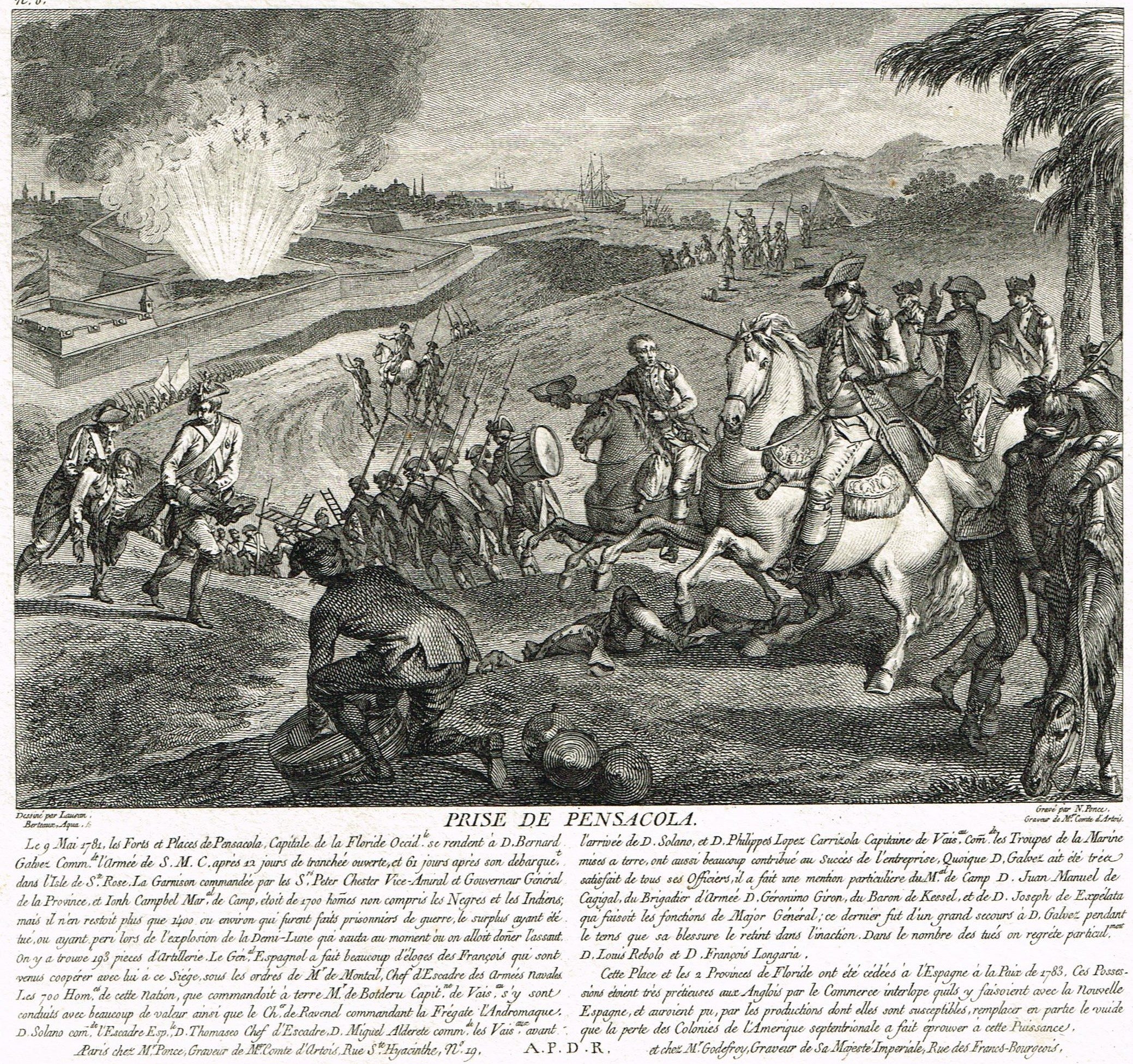 Attack and capture of Pensacola in May 1781 after the landing of a Spanish troupe accompanied by a French fleet and Spanish. French painting from 1784 with text, Paris.